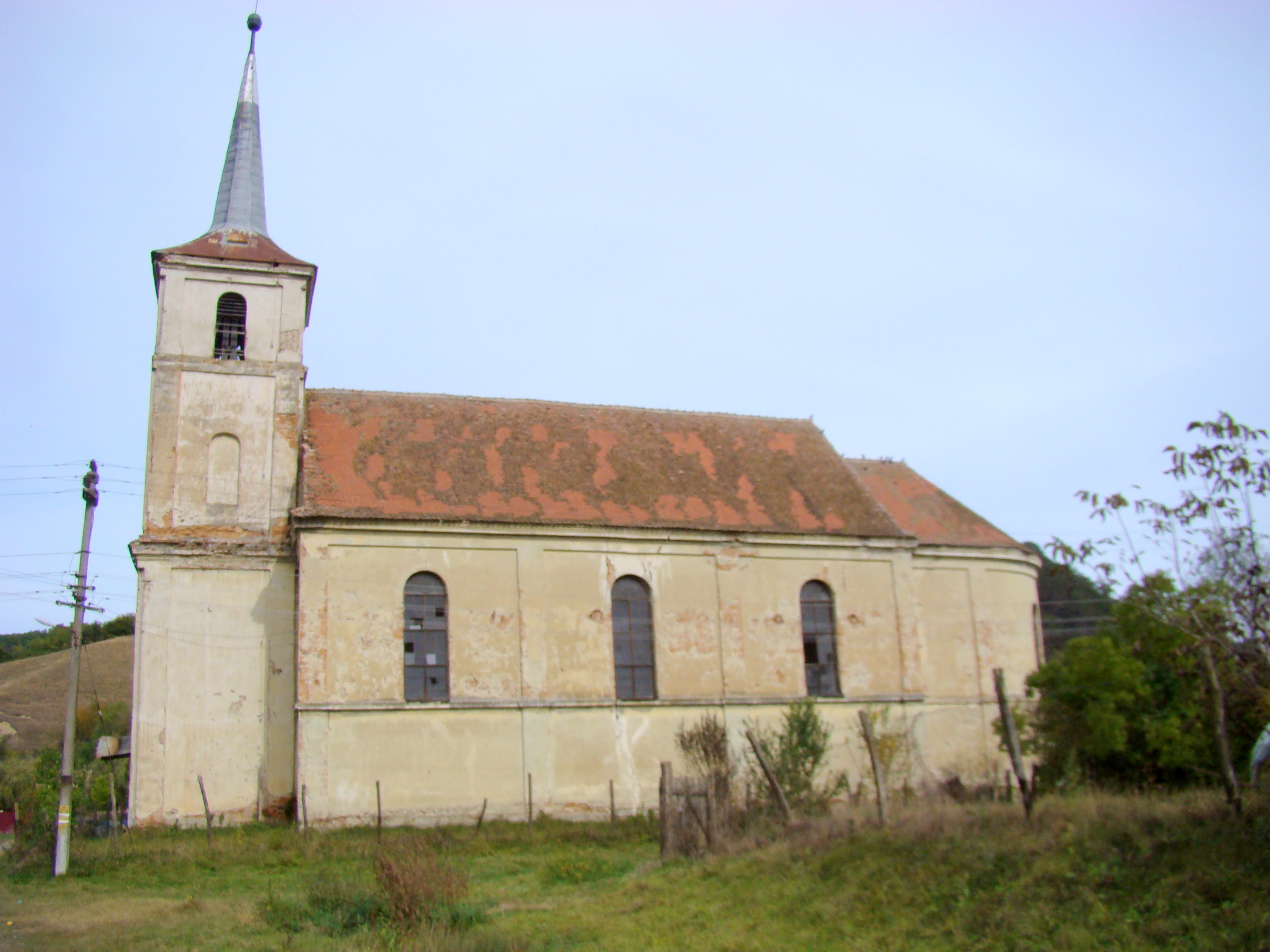 Lutheran church in Sântioana, Mureș County, Romania